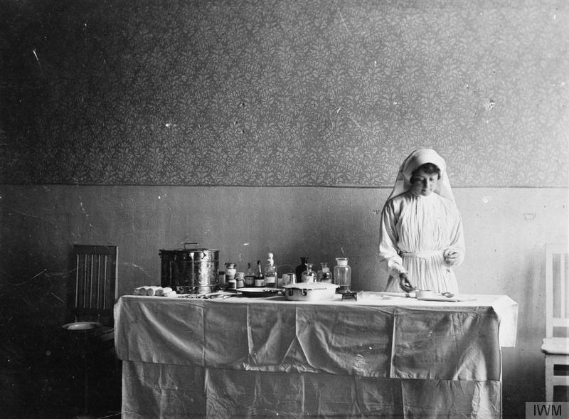 The Red Cross on the Eastern Front, 1914-1917 Nurse Florence Farmborough working in a makeshift dispensary, March 1915.